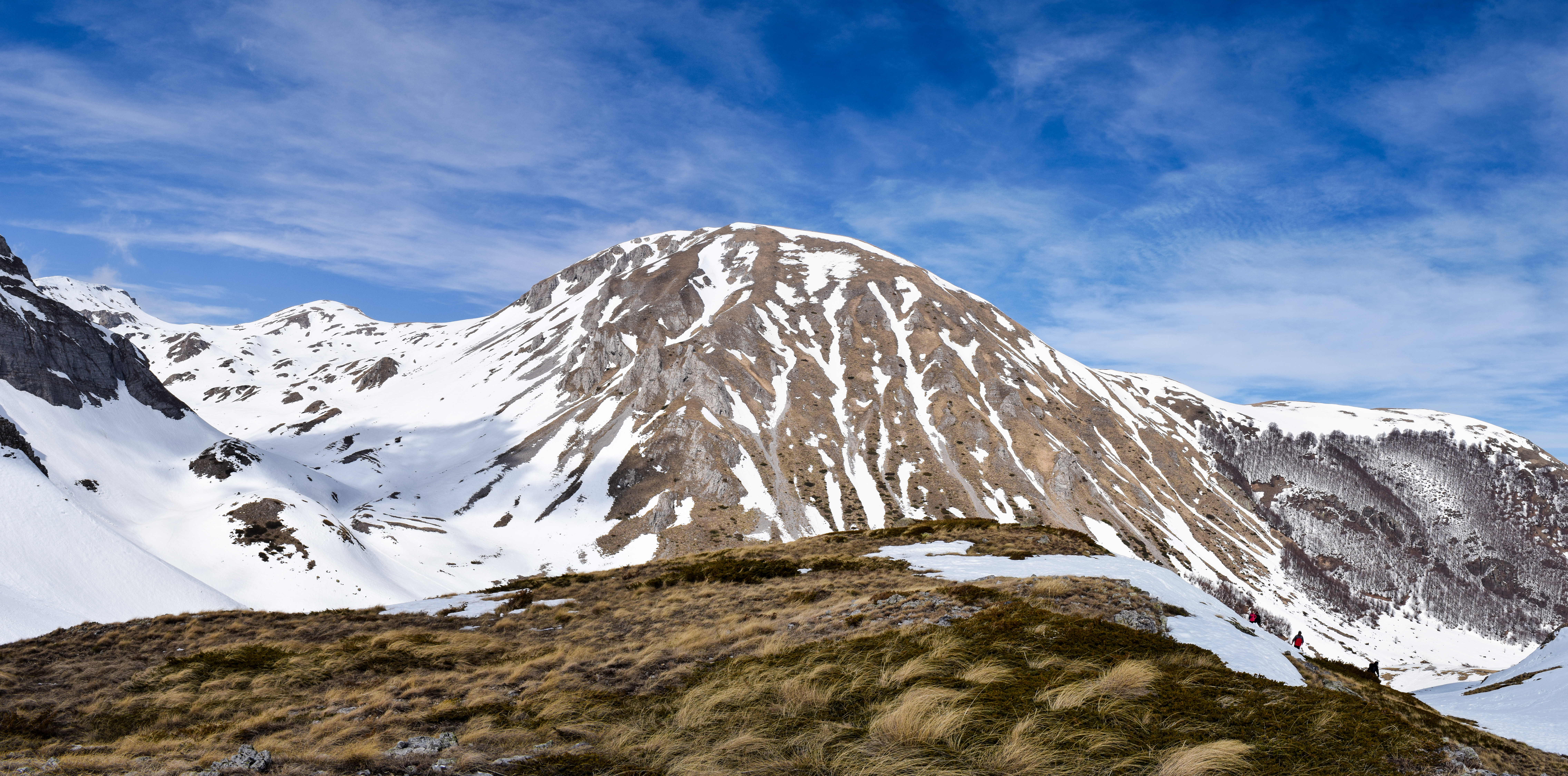 Strizak (2233m) during late winter, Jablanica Mountain